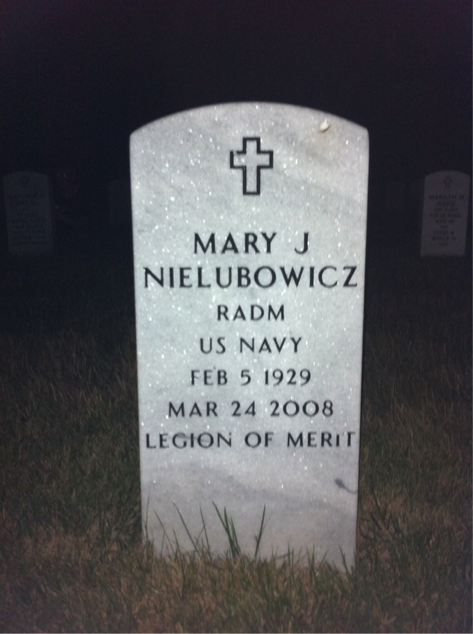 Grave of Mary Joan Nielubowicz at Arlington National Cemetery